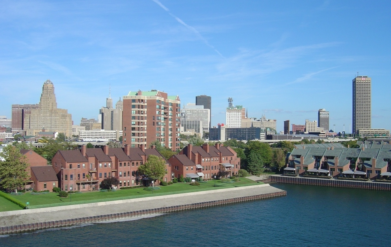 Downtown Buffalo